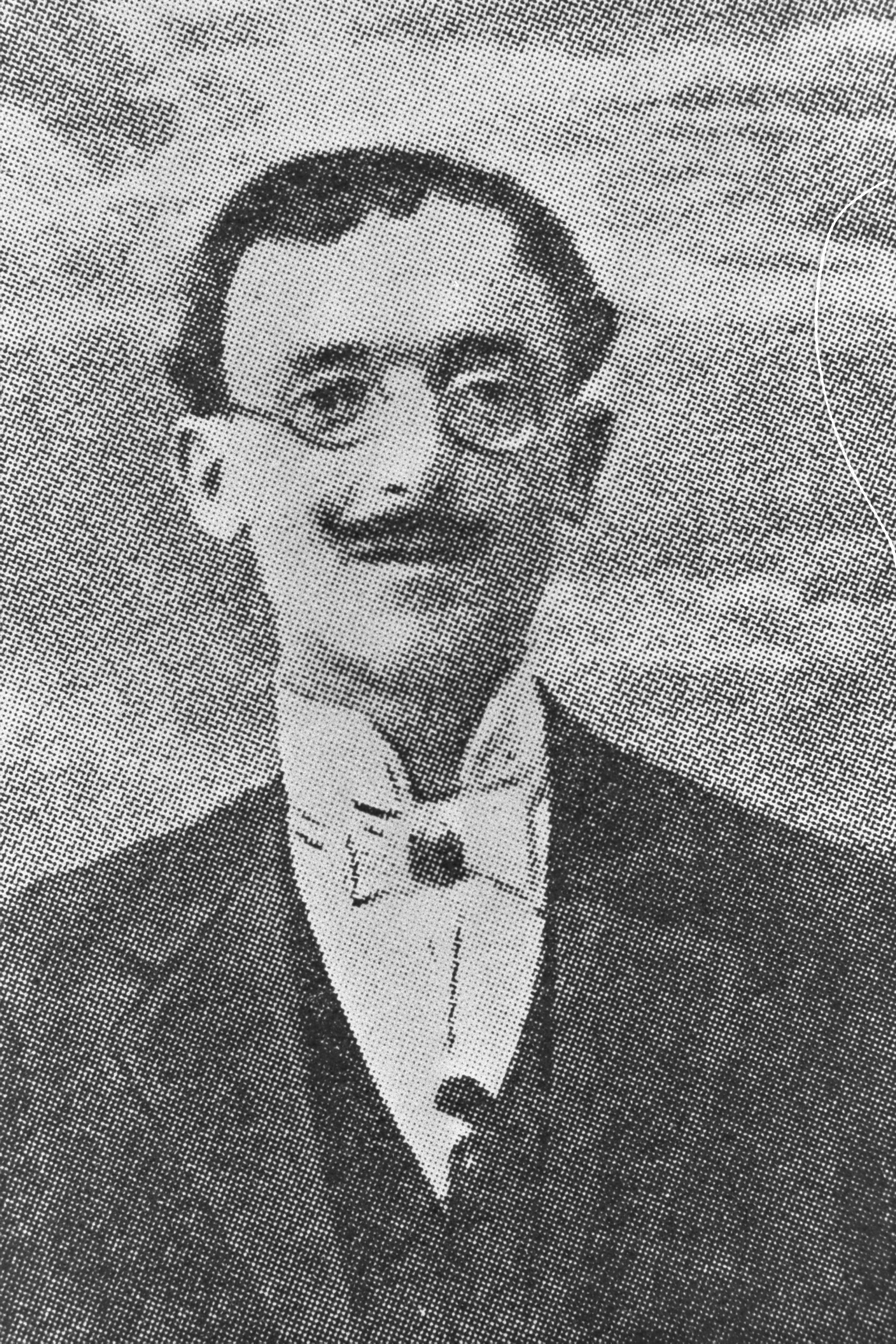 HAIM BEN ATAR, "HAHERUT" EDITOR AT TURN OF CENTURY